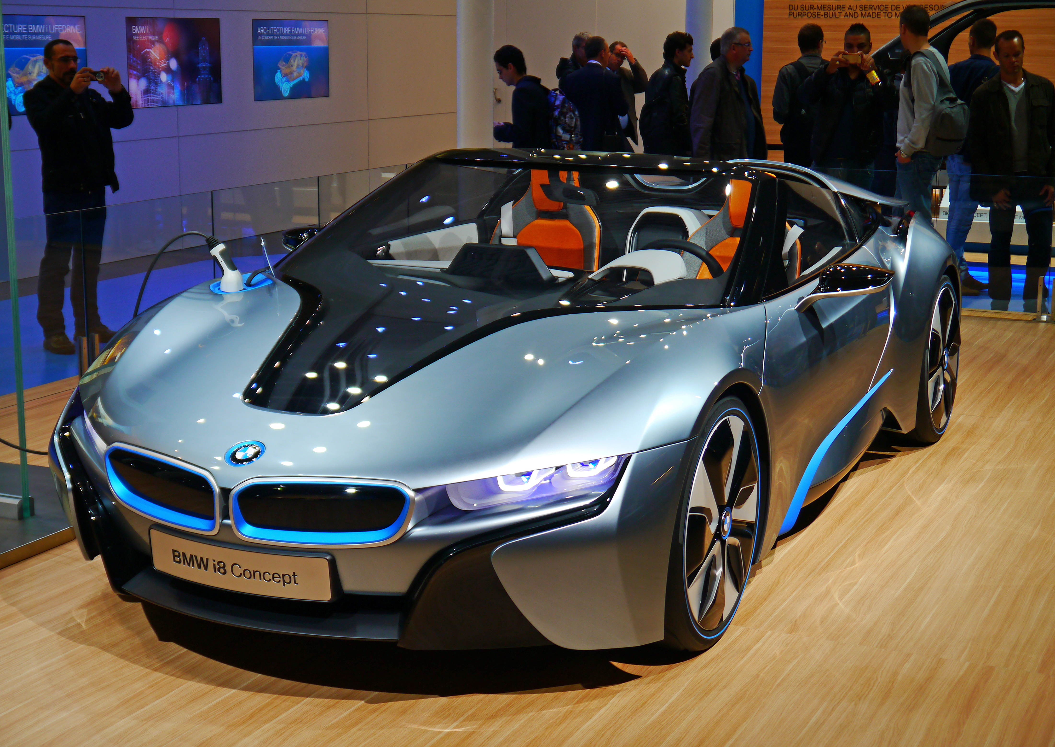 BMW i8 concept - plug-in hybrid. A 1.5 litre, 3 cylinder diesel engine combined with a 7.2 kWh lithium-ion battery pack which delivers an all-electric range of 35 km (22 mi).